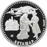 50 tenge. Betashar. Revers